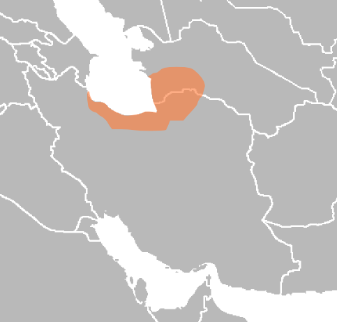 Map of Hyrcania